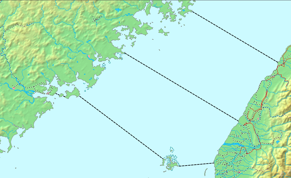 Three suggestive lines for Taiwan Strait Tunnel Project